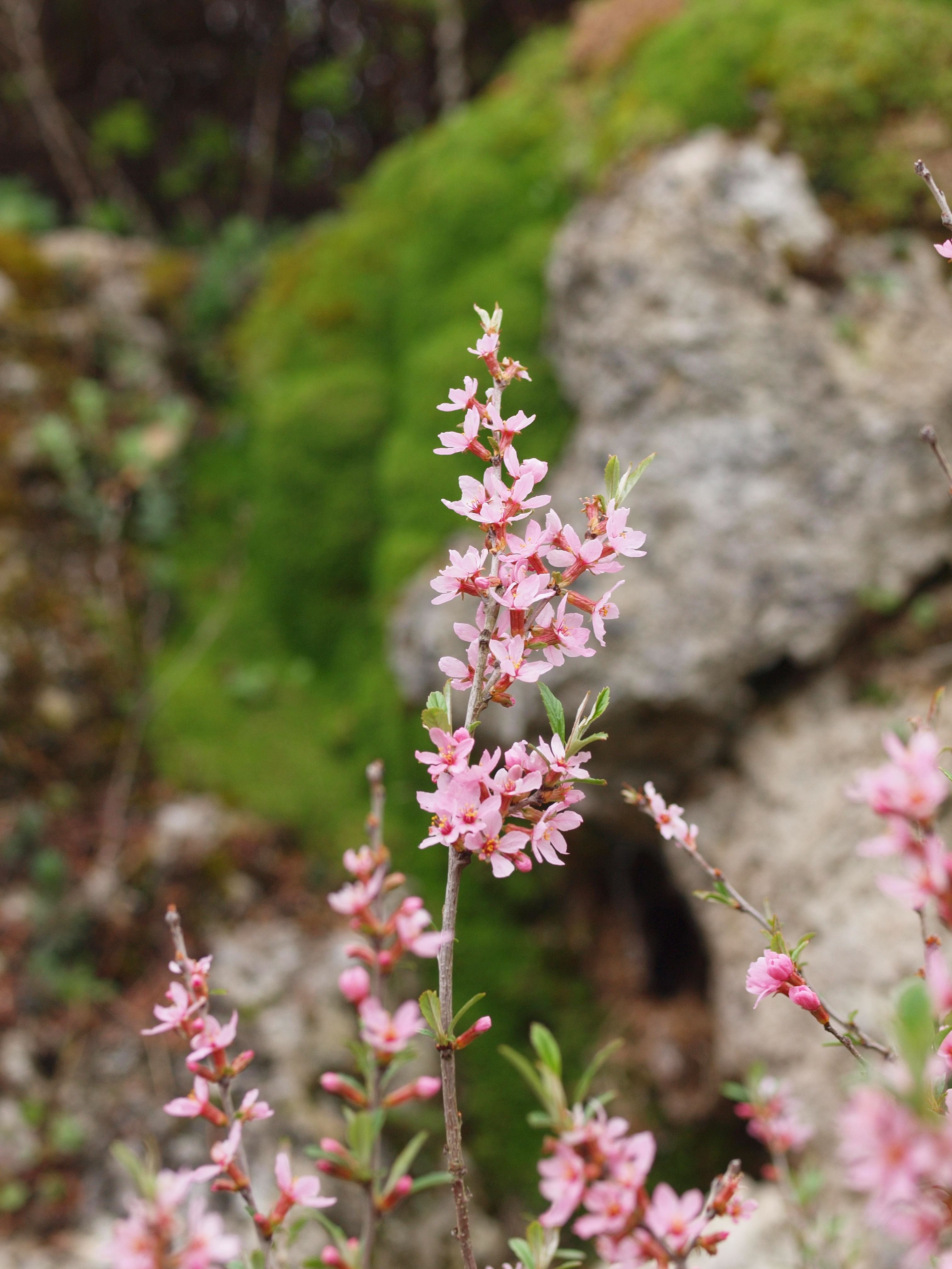 Prunus prostrata flower